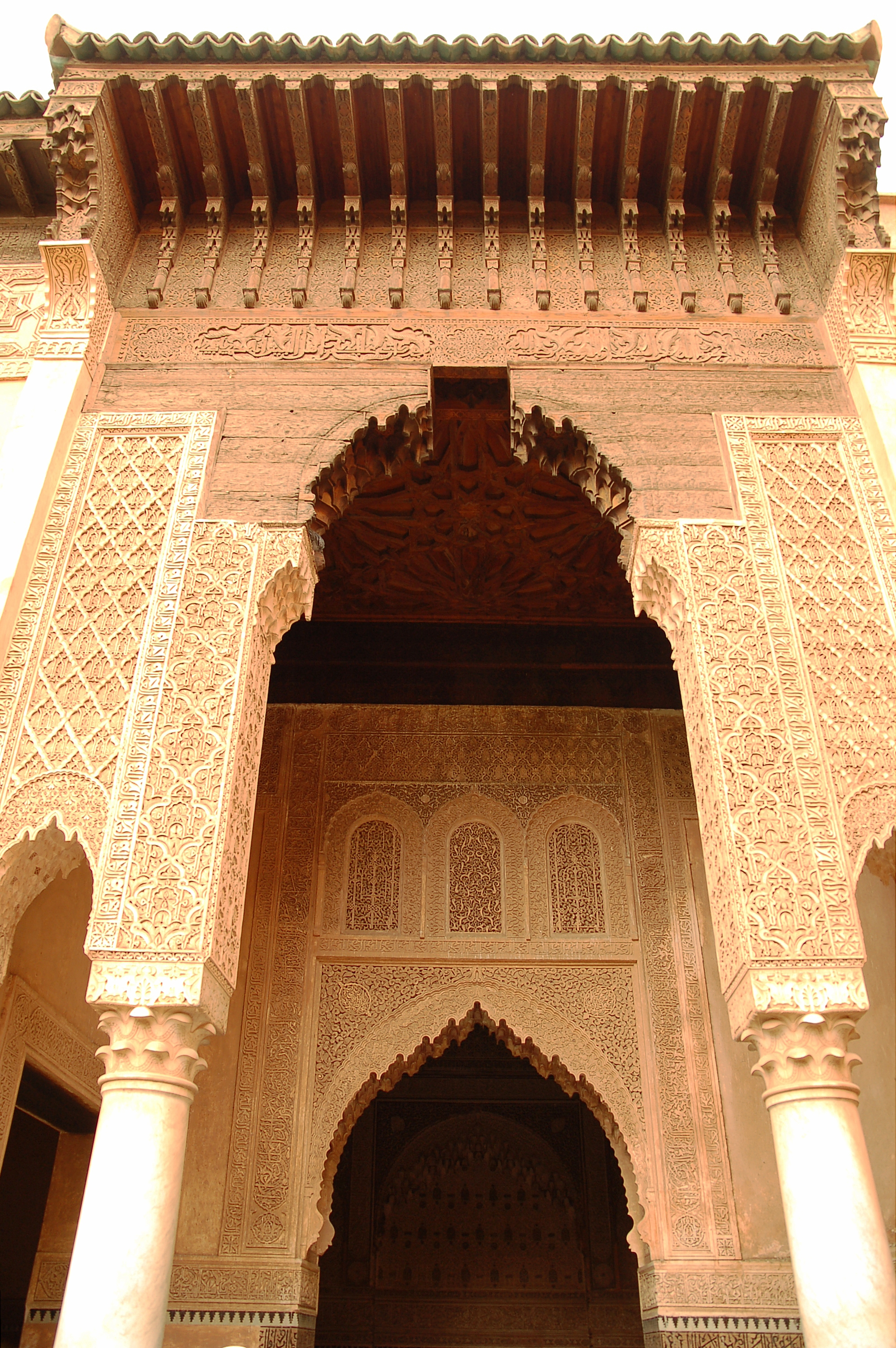 Maroc Marrakech city Saadiens tombs